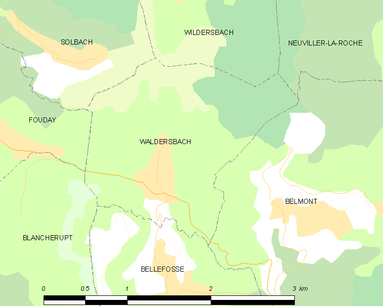 Map of French municipality